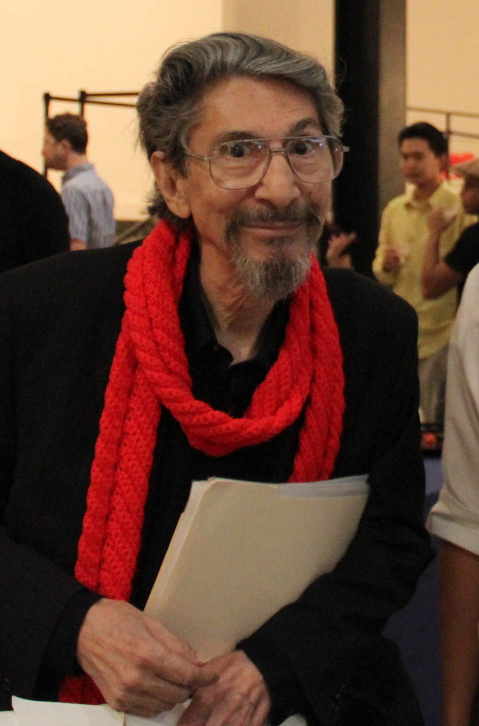 Virtuoso: Pablo Ferro and the Art of Film Title Design